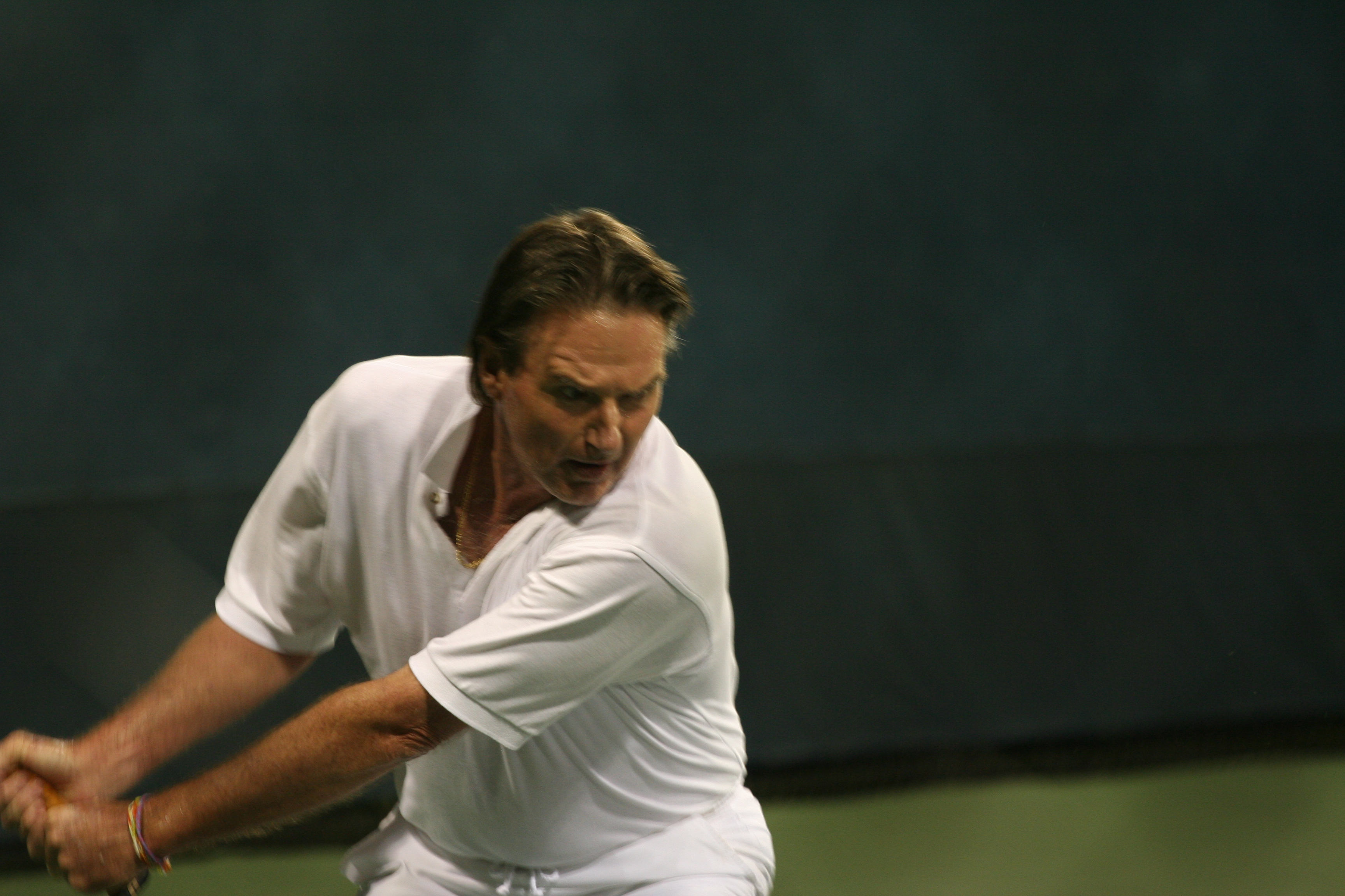 hitting to John McEnroe who was on the dark side of the court U.S. Open Tuesday, Sept. 1, 2009